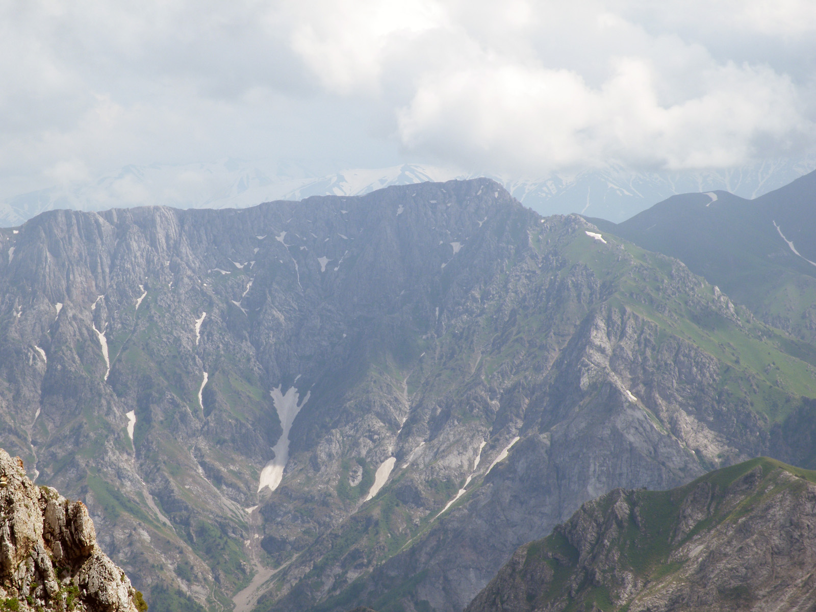 Pulatkhan precipices (Karaarcha river side). Tashkent area, Uzbekistan.